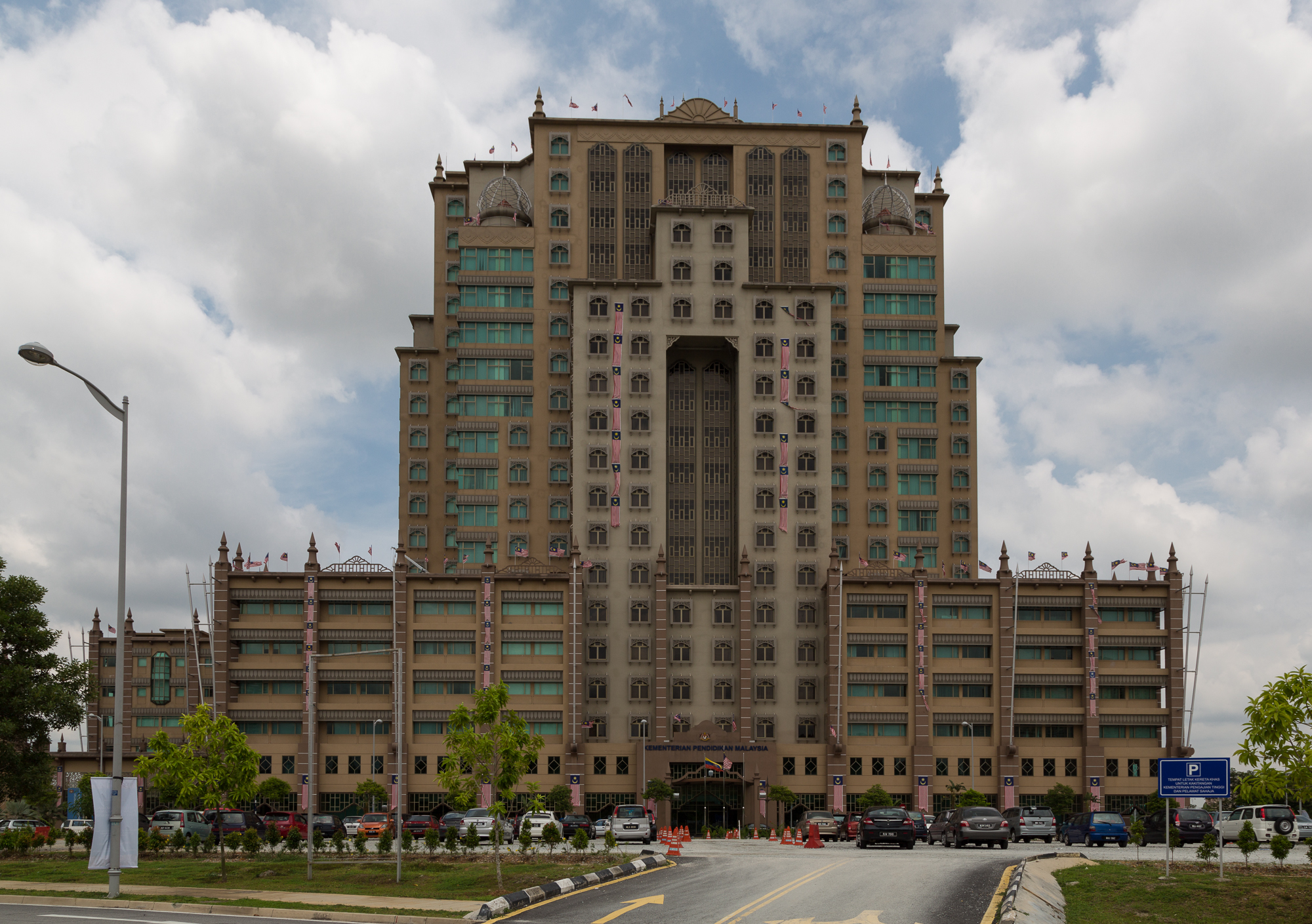 Putrajaya, Malaysia: Kementerian Pendidikan (Ministry of Education; MOE)